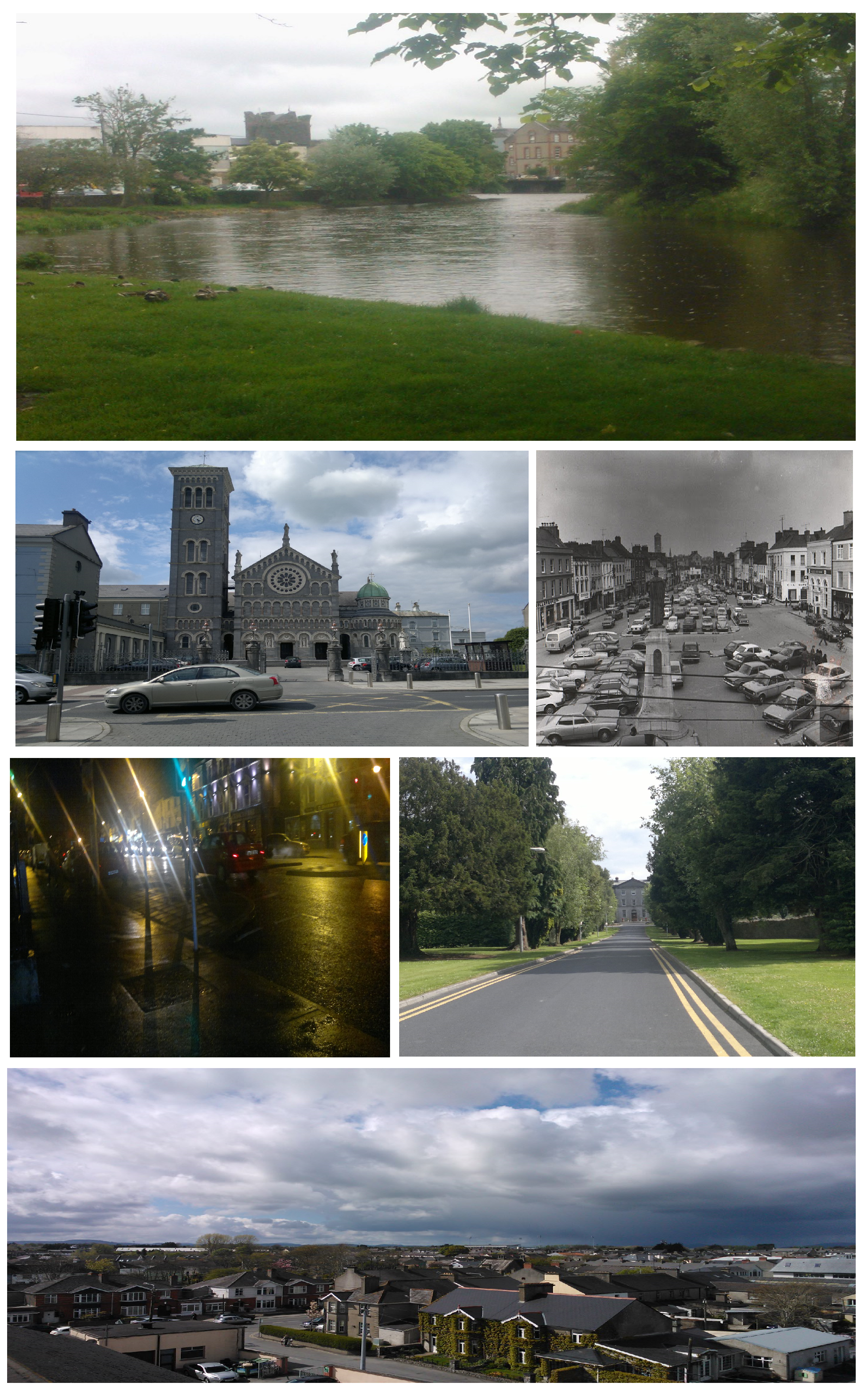 Thurles